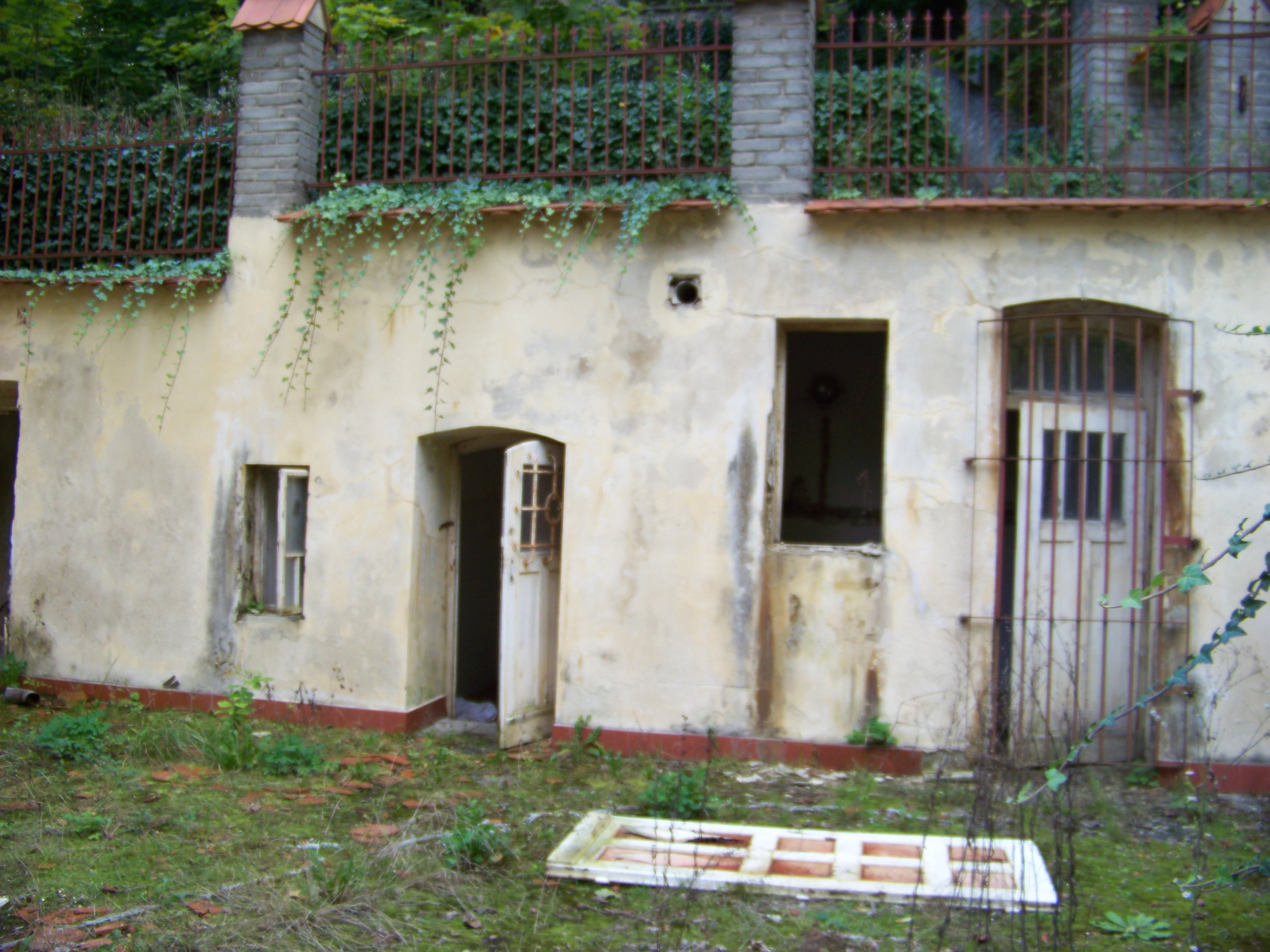 Prague-Zbraslav, Czech Republic. Bartoňova 630, a villa of František Storch, cellars.